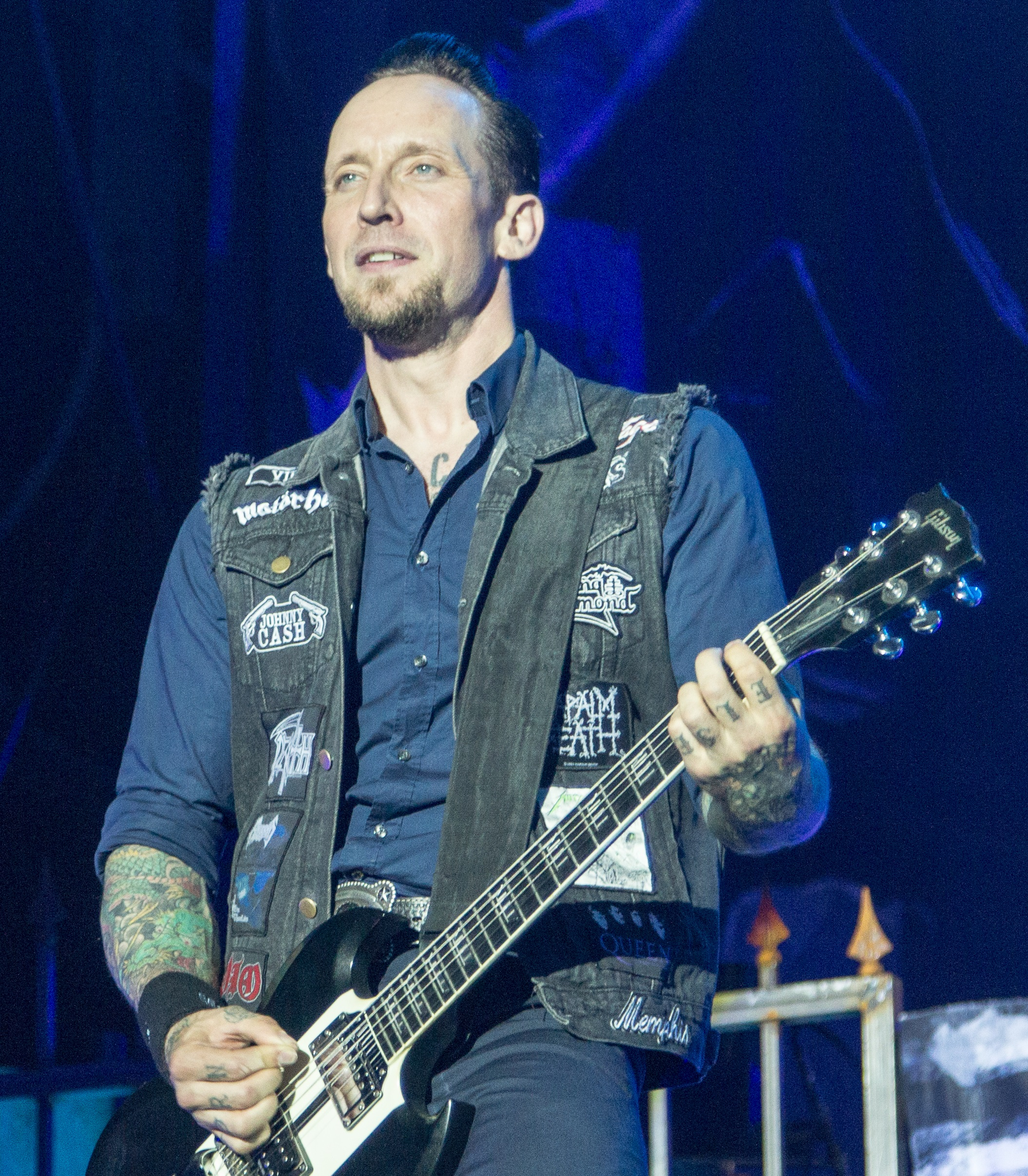 Danish singer and guitarist Michael Poulsen. Lead singer of the Danish Heavy Metalband Volbeat. At Nova Rock 2014.